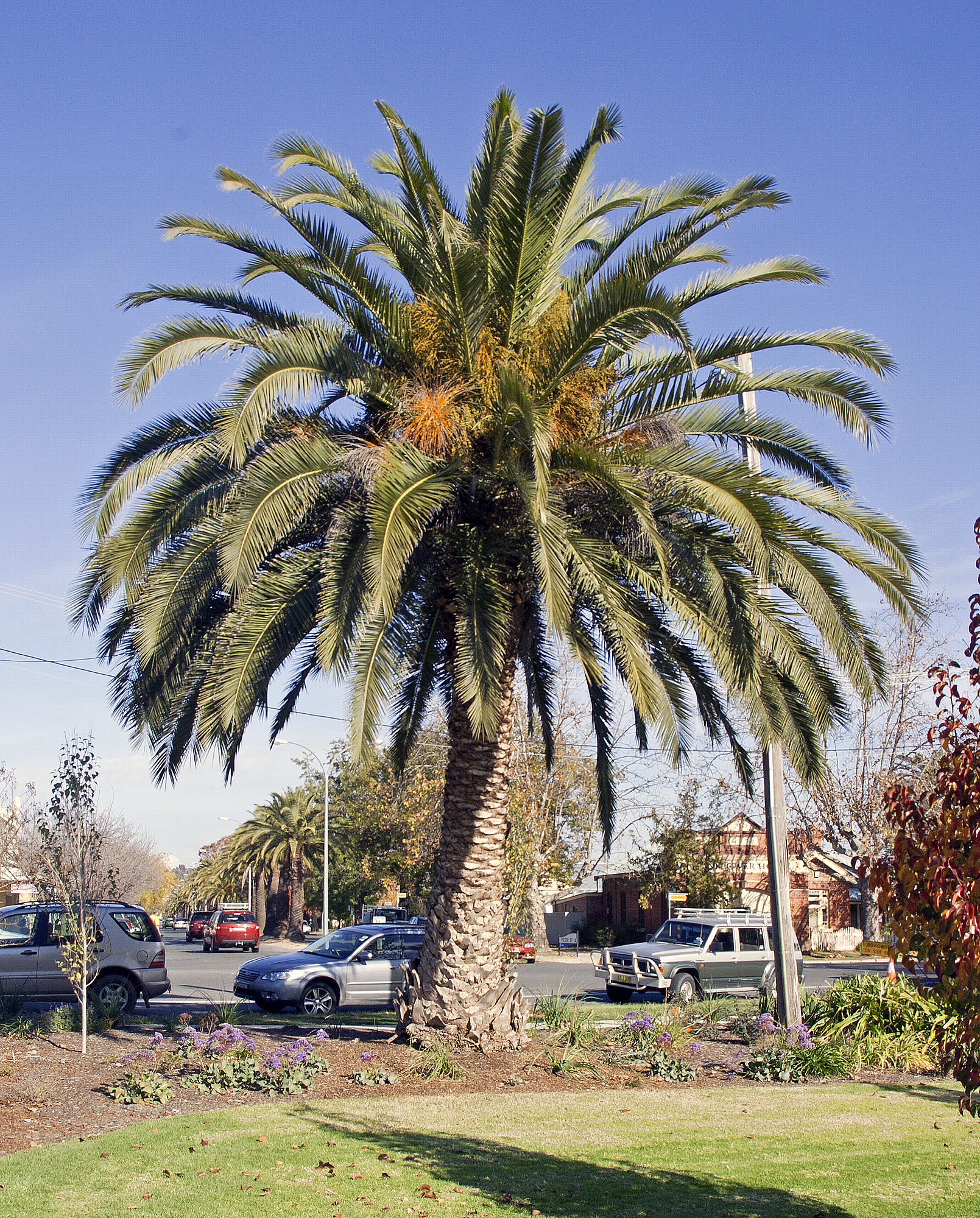 Phoenix canariensis (with a row of Phoenix canariensis growing in the centre island on Peter Street) located in the Victory Memorial Gardens in Wagga Wagga, New South Wales, Australia.